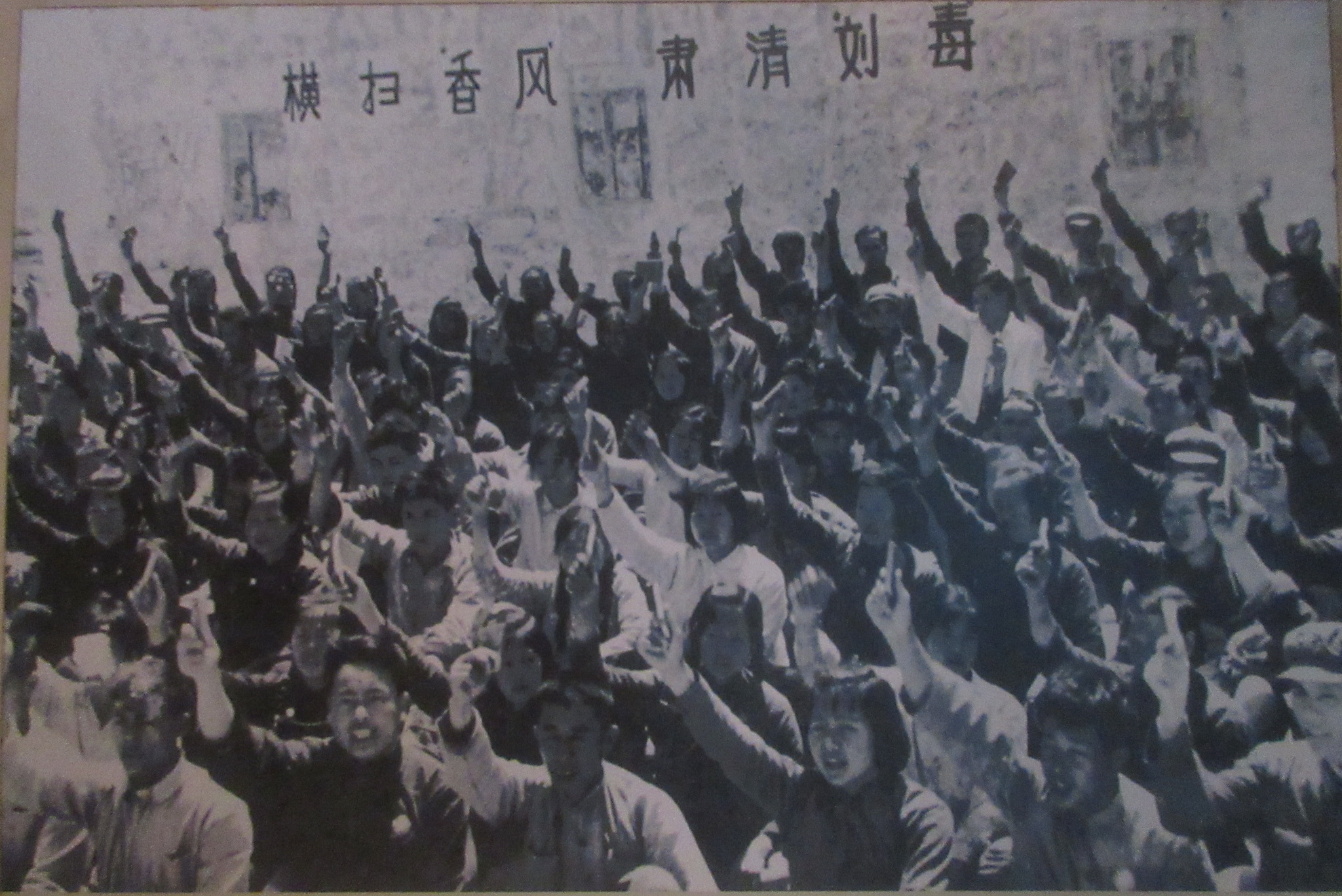 SZ 深圳博物館 Shenzhen Museum 深圳改革開放前歷史展廳 Before Reform and Opening-up History Anti-Liu Shaoqi